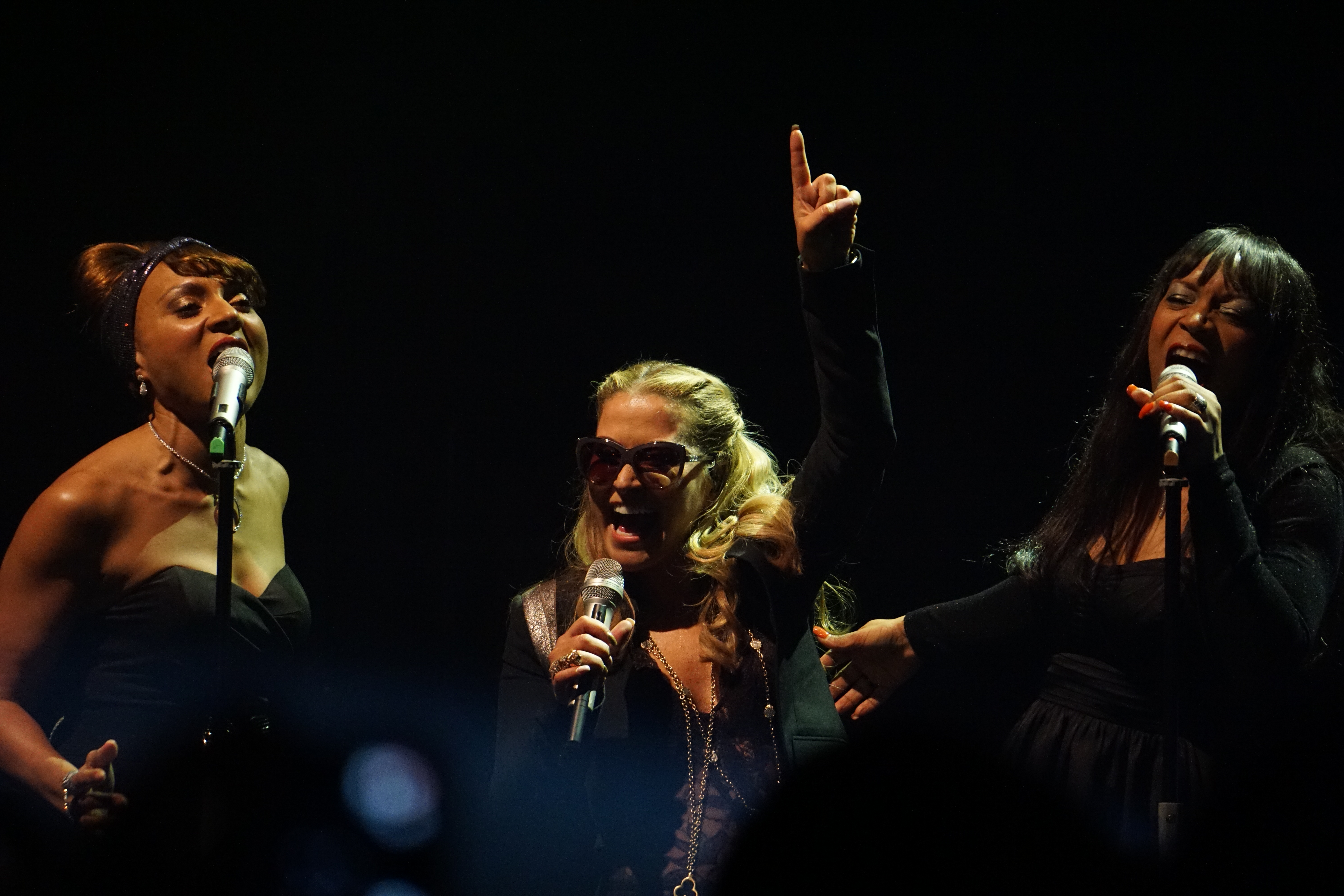 Anastacia performing in London promoting the "Resurrection Tour" 2015.